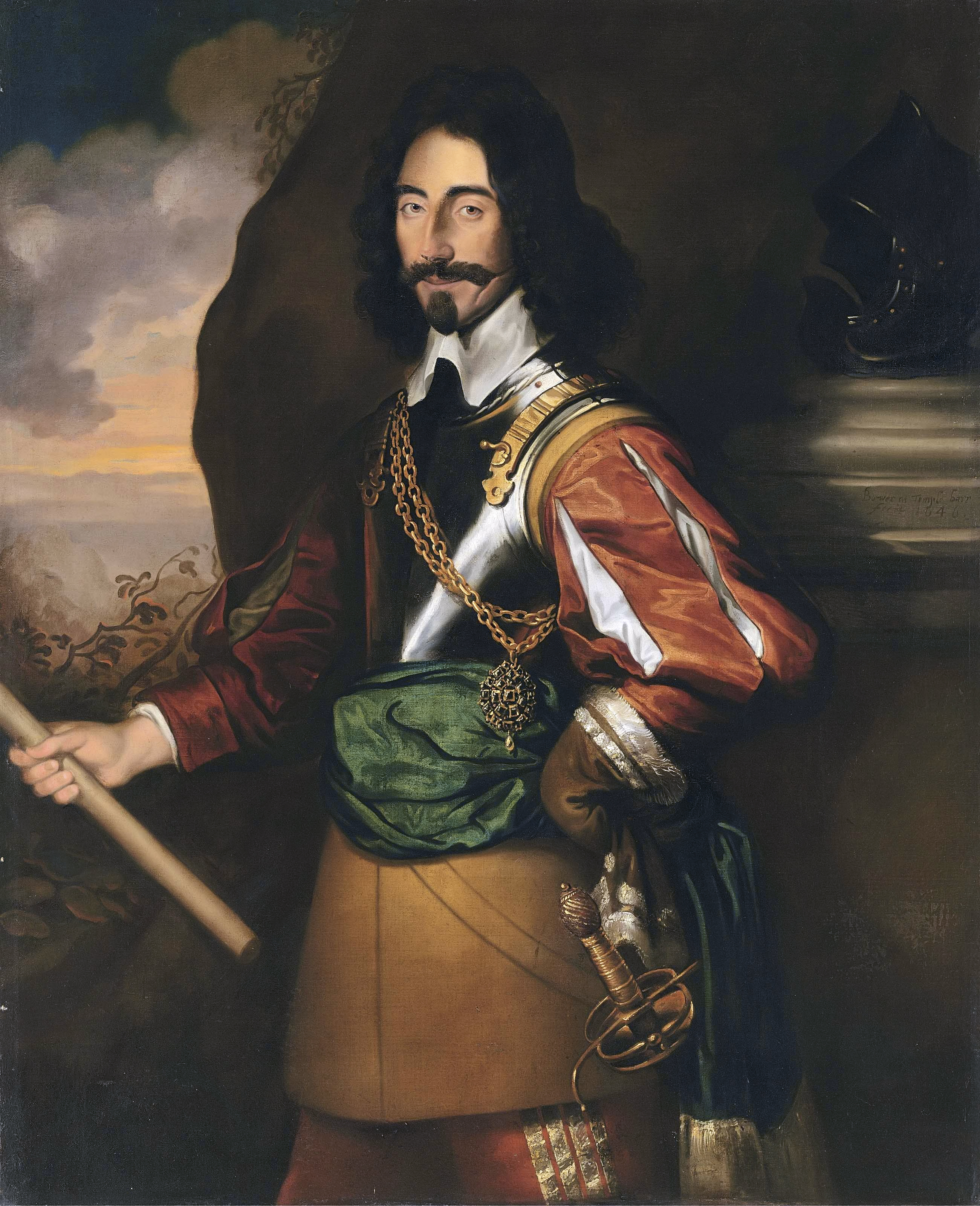 Portrait of Thomas Fairfax, 3rd Lord Fairfax of Cameron (1612–1671), three-quarter-length by Edward Bower (active 1629-died 1667). oil on canvas 122.8 x 100 cm signed c.r.: Bower at Temple Barr / fecit 1646.